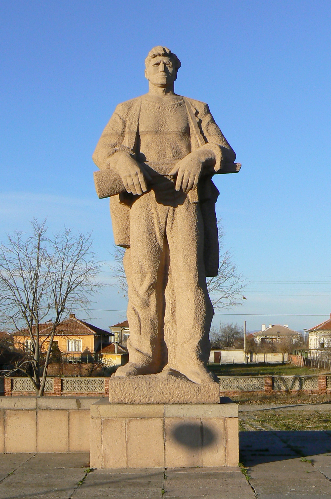 Partisan monument in village Orizovo, Bulgaria